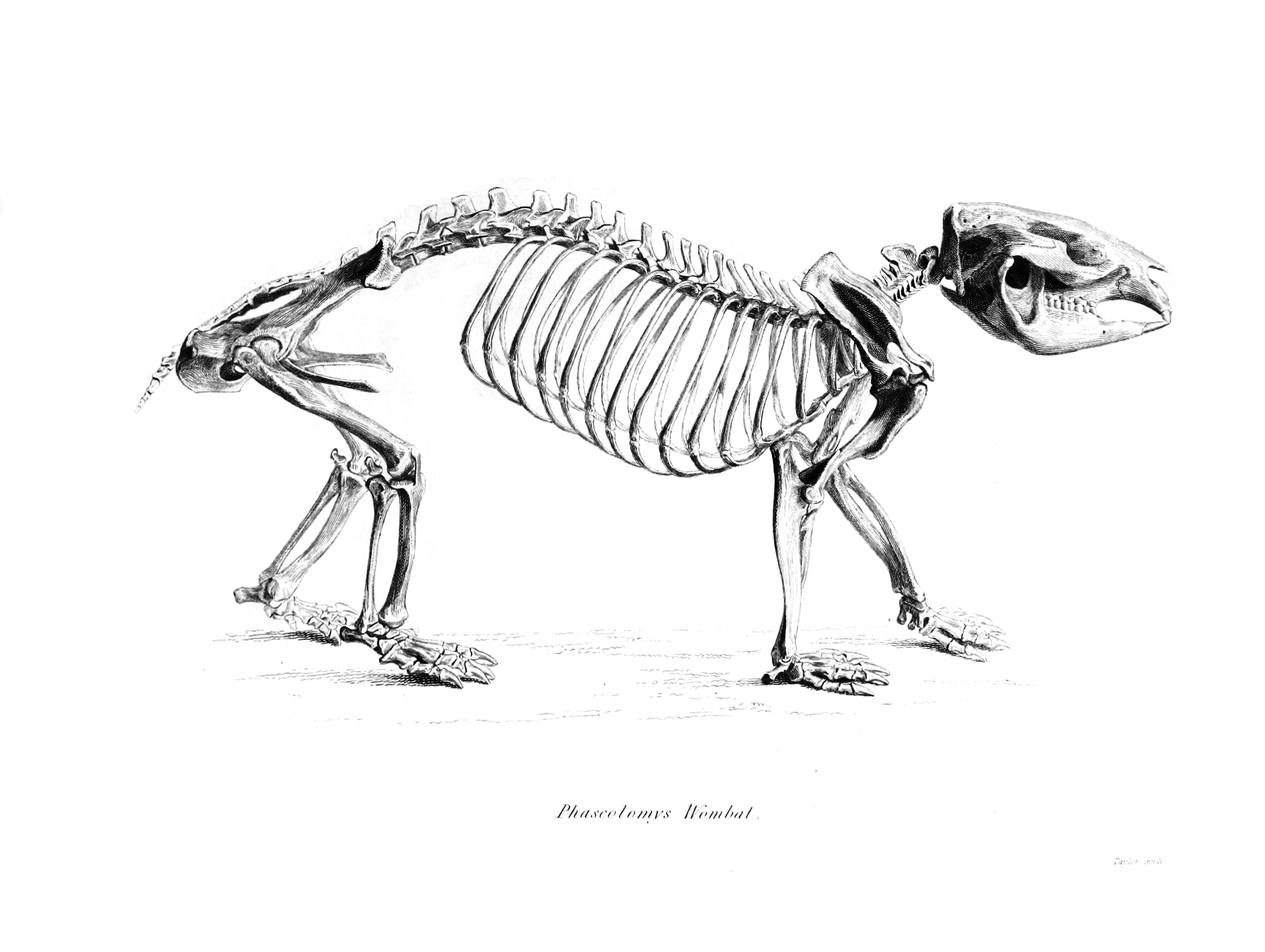 Skeleton of wombat